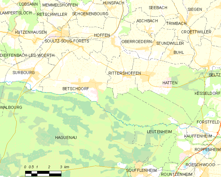 Map of French municipality